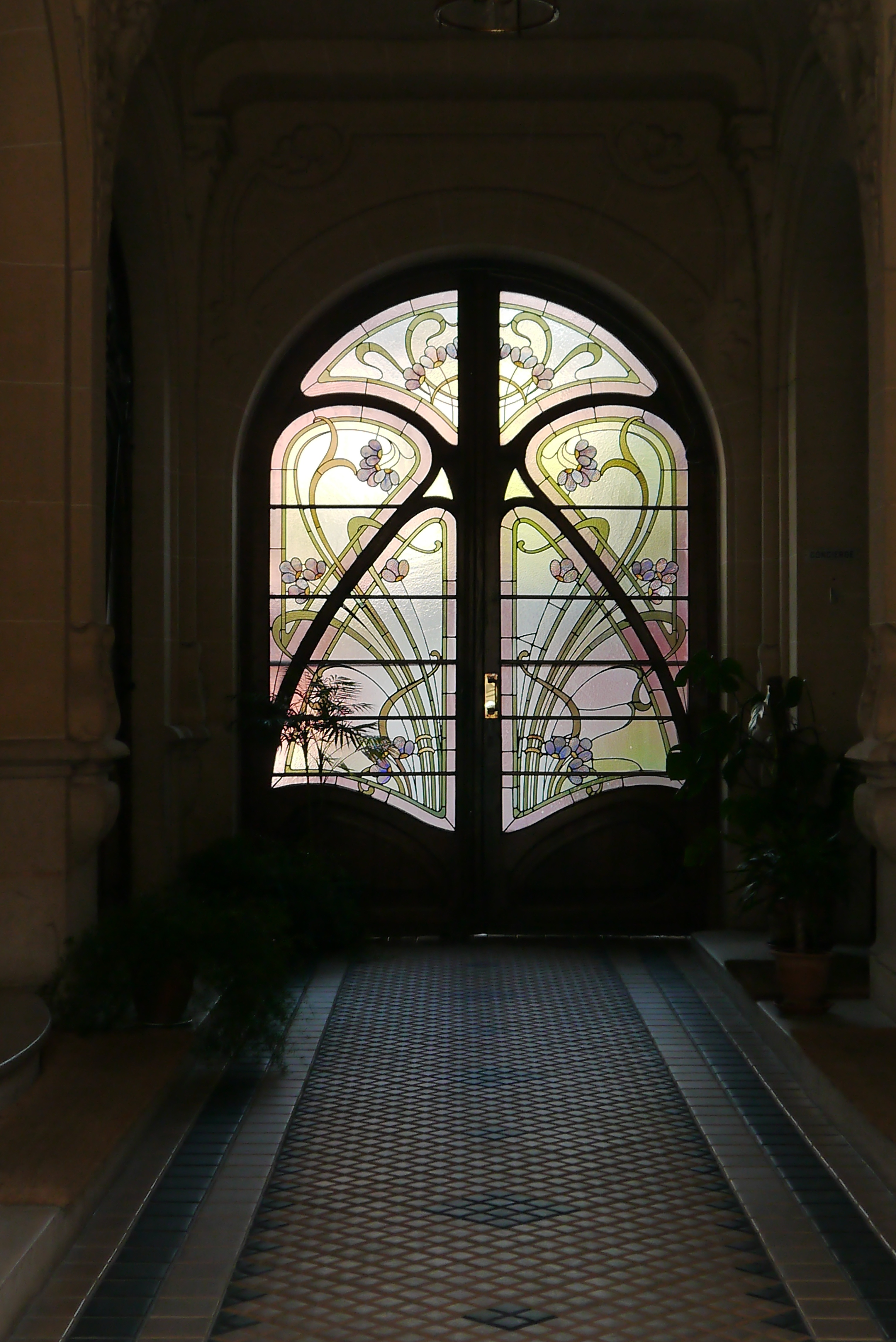 15 rue Gabrielle, Charenton-le-Pont, France. 1903 building by architect Georges Guyon: hall and Art nouveau backdoor.